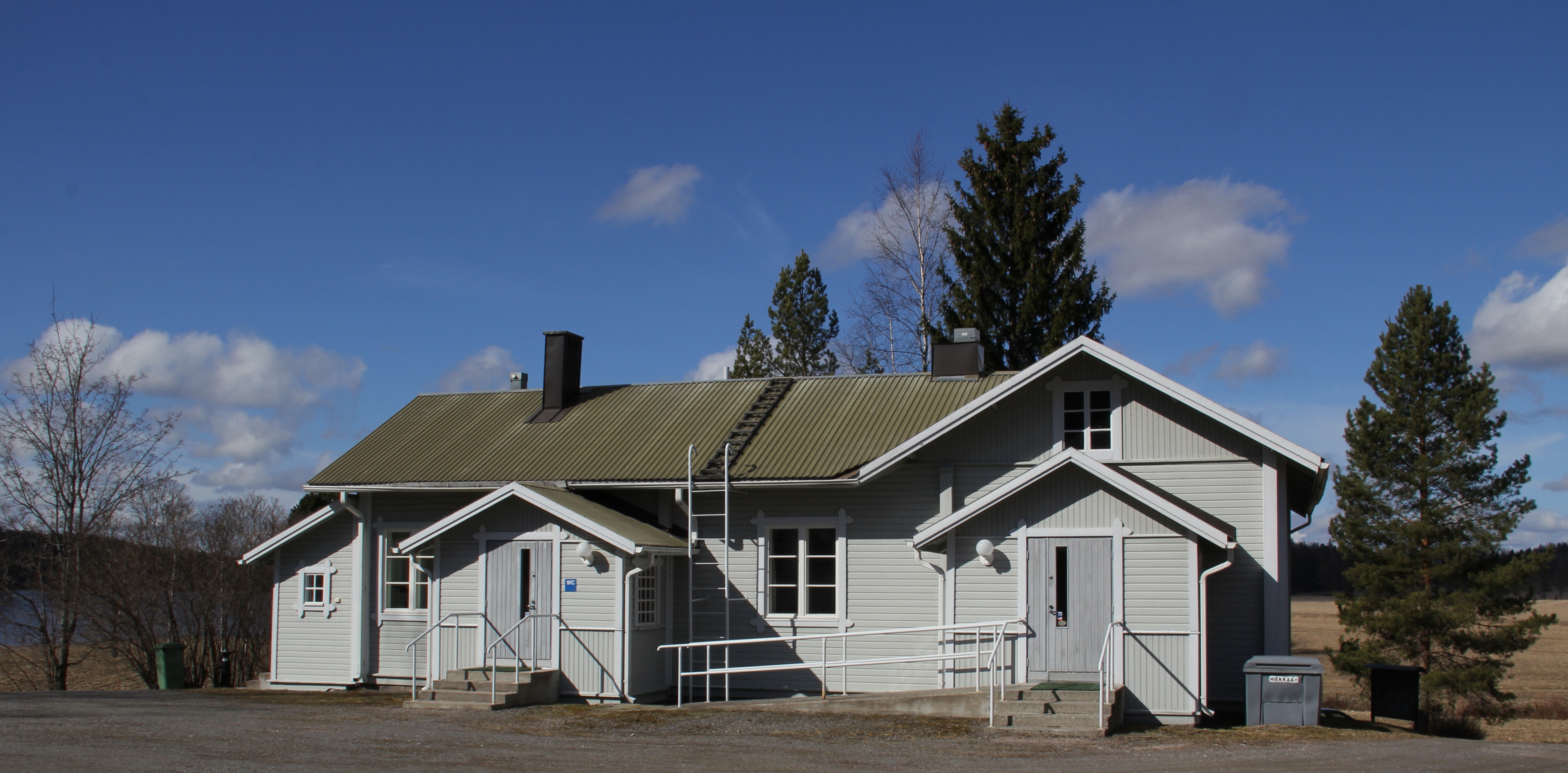 Mommila parish hall, near Mommila church, Mommila, Hausjärvi, Finland. Completed in 1912 as a school.